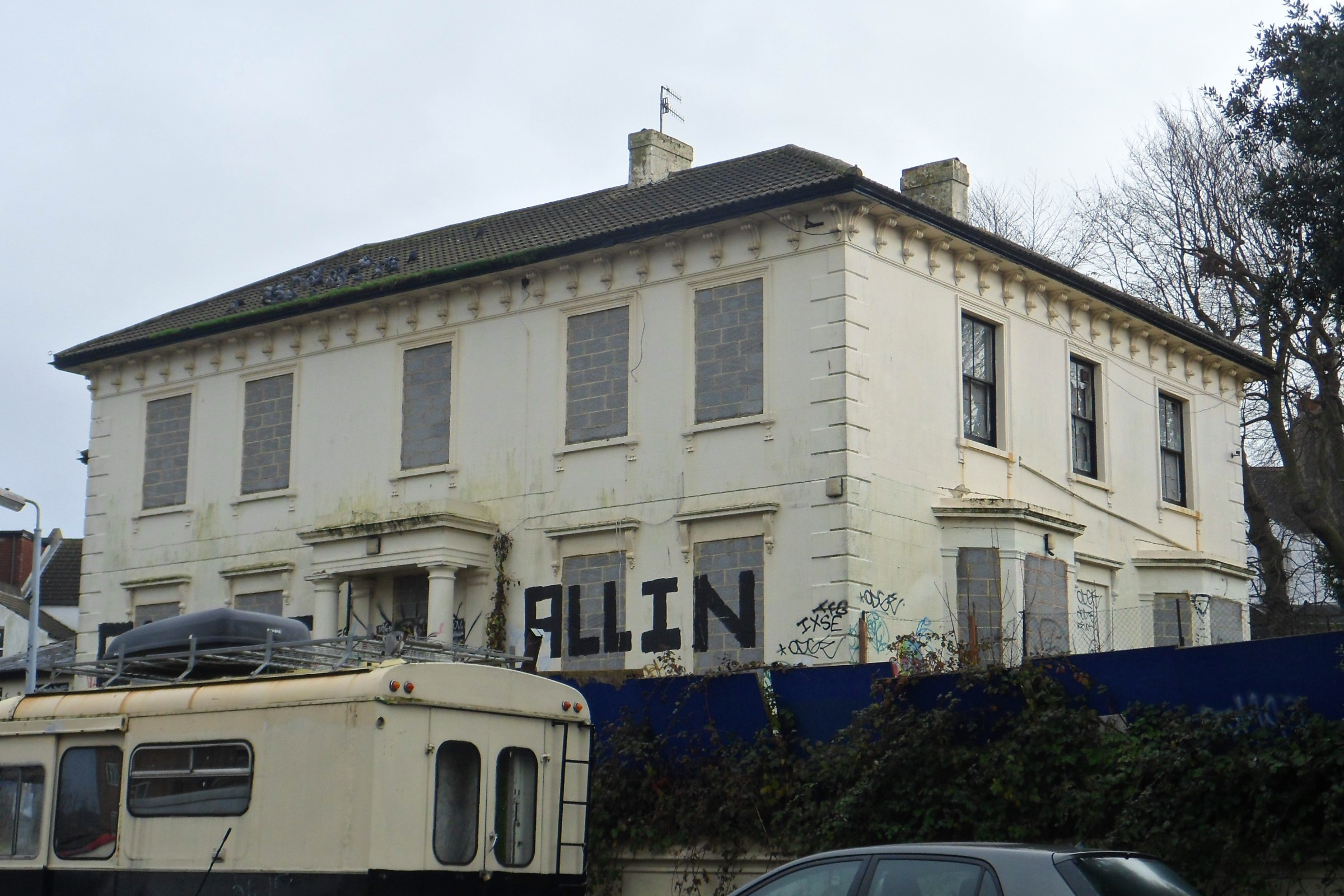 18 Wellington Road, Elm Grove, Brighton, City of Brighton and Hove, England. One of the earliest residential streets developed in the Elm Grove area of Brighton. Number 18, formerly a children's home, is the only surviving 1850s villa; it is seen here in derelict condition, and is threatened with demolition.